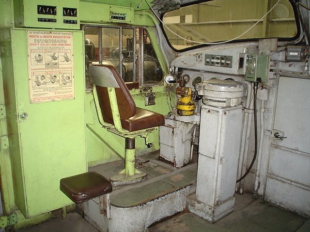 Interior of South Australian Railways 900 class locomotive drivers cab